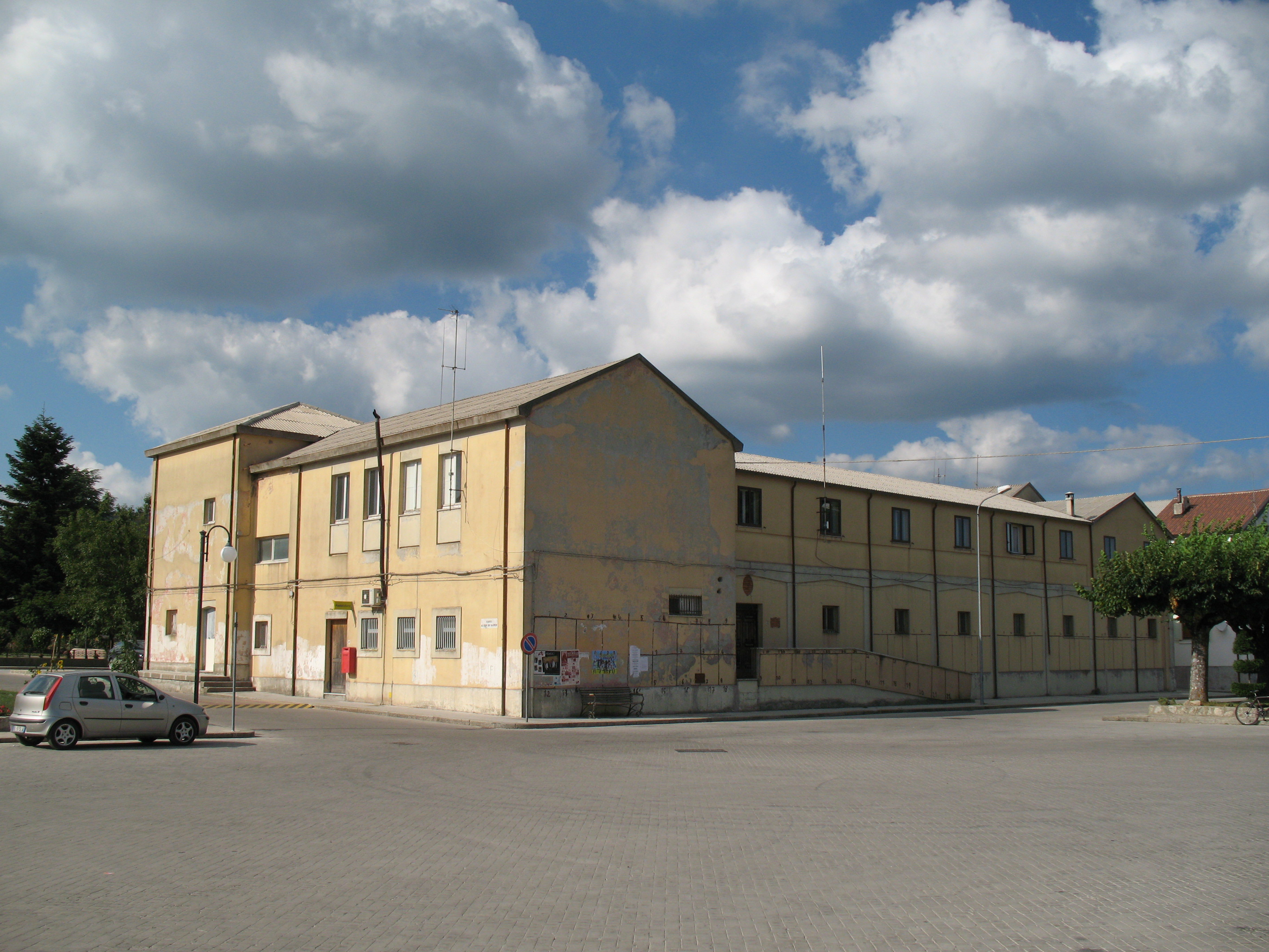 Nardodipace, town hall